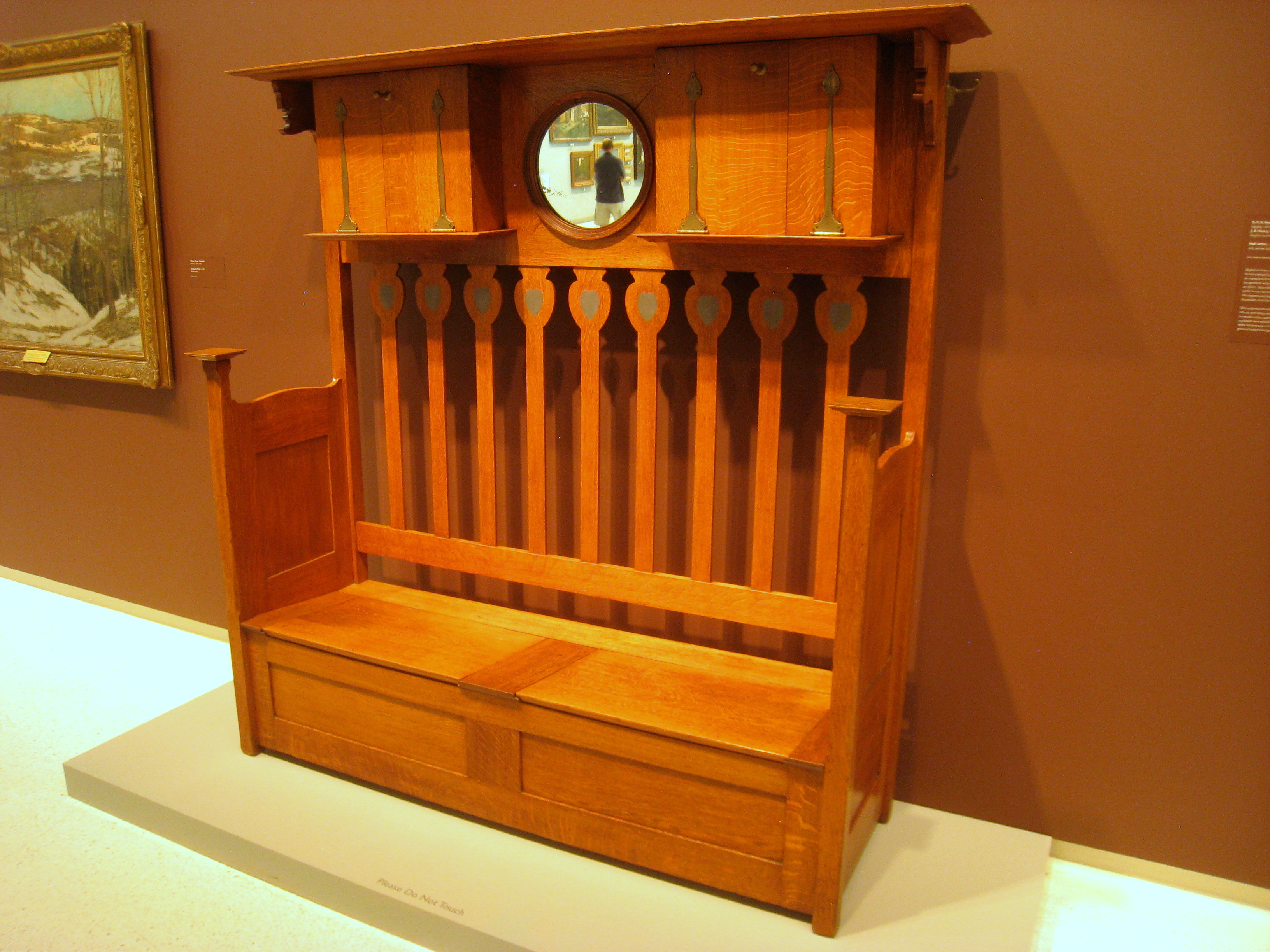 Charles Francis Annesley (1857-1941): Hall settle, c. 1900, exhibited in the Carnegie Museum of Art, Pittsburgh, Pennsylvania, USA.